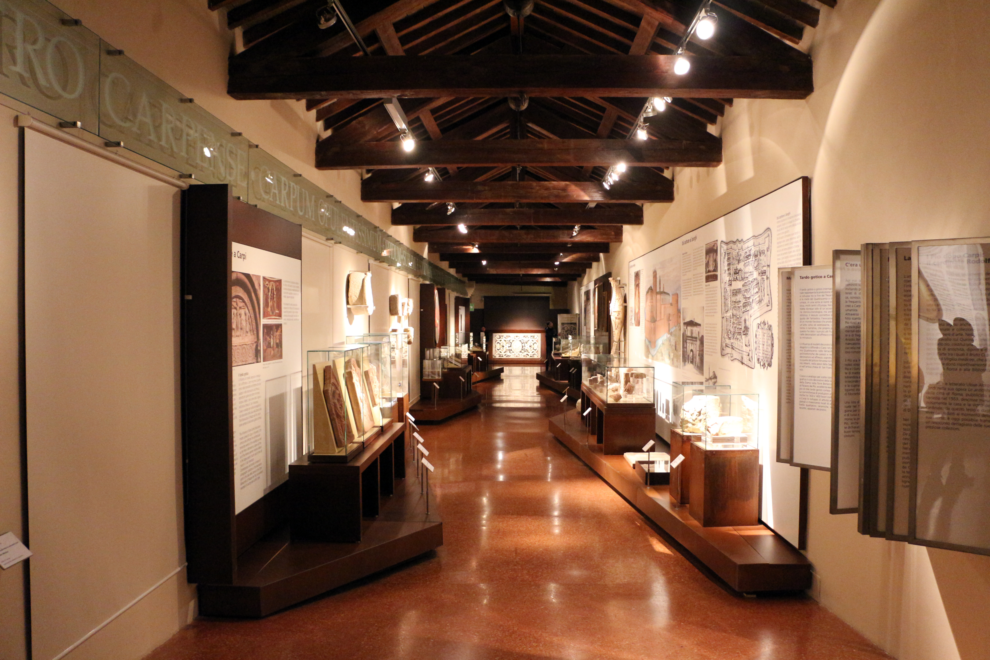 Collections of the Museo Civico (Carpi)